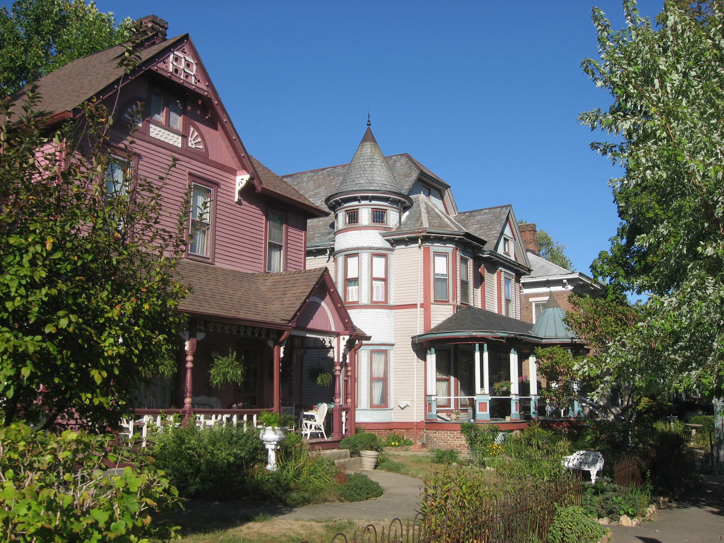 Houses on the northern side of Martin Place in Franklin, Indiana, United States. This block is part of the Martin Place Historic District, a historic district that is listed on the National Register of Historic Places.